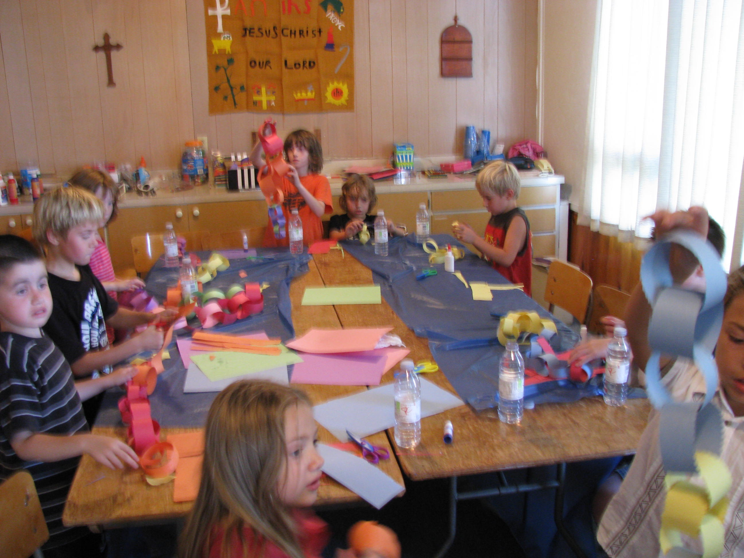 Campers working on crafts